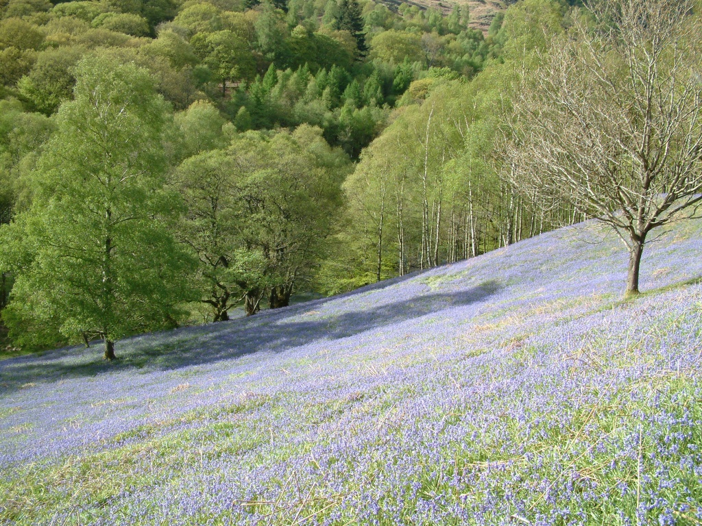 Bluebell (Hyacinthoides non-scripta) field between Grasmere and Rydal Water, Lake District, GB.